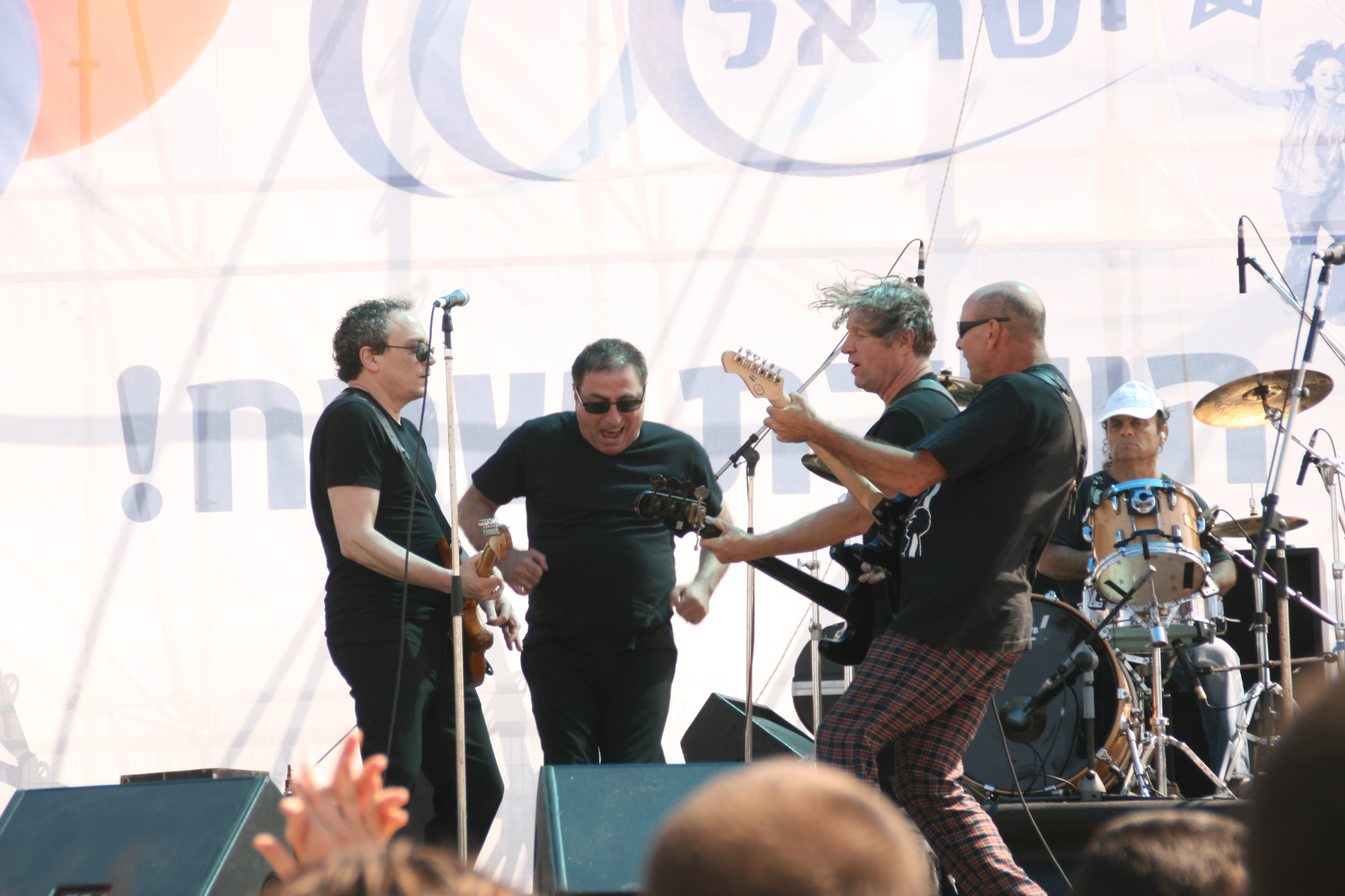 T-Slam during a performance at Achzib beach during a celebration of Israel's 60th anniversary